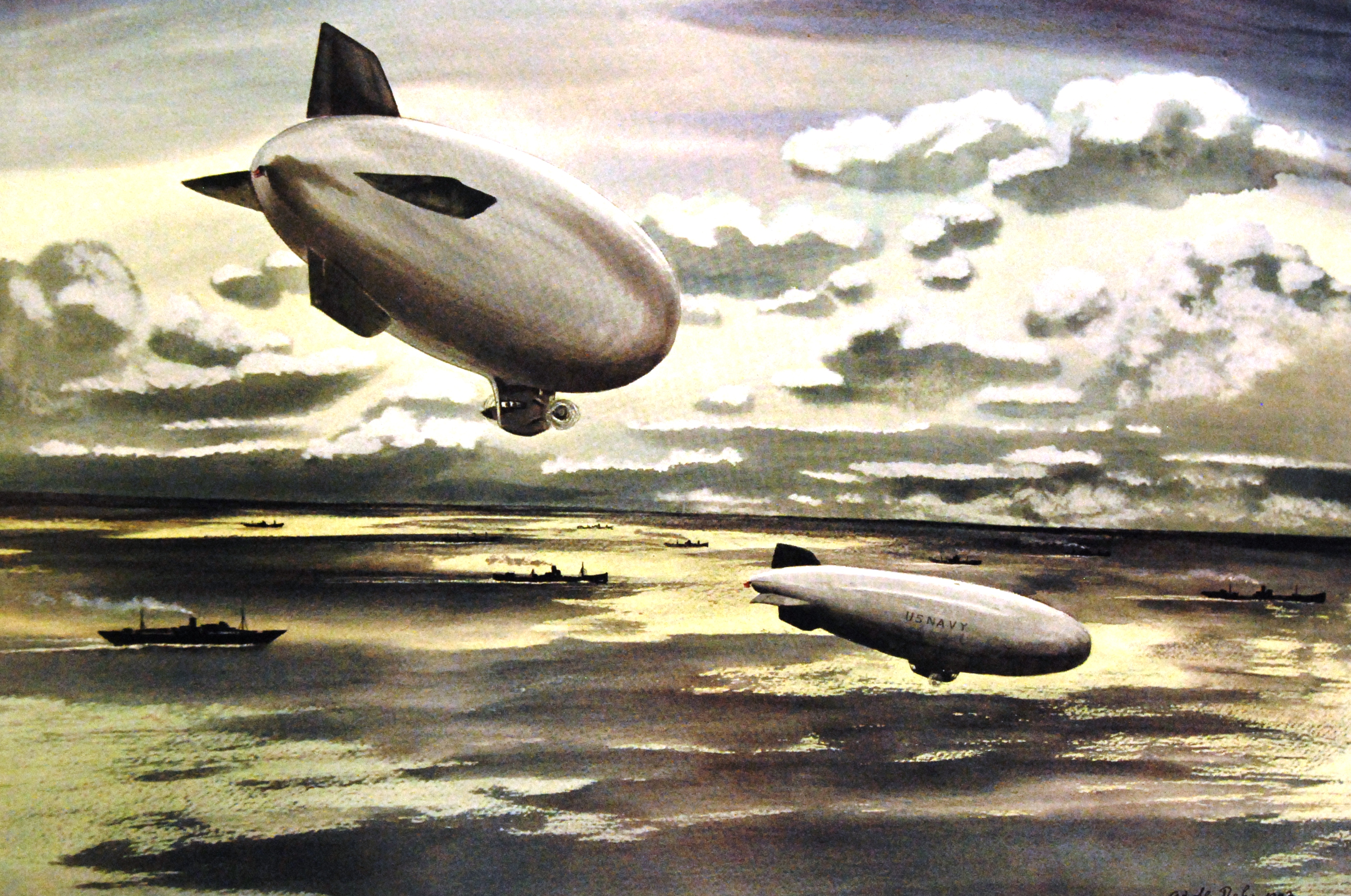 Lot 3124-7: Paintings of Naval Aviation during World War II: Abbott Collection. #59: “The Convoy Brook” Artwork by Adolf Dehn. “Like maternal hens, U.S. Navy blimps hover over a sea-borne convoy alert to any danger on the horizon or beneath the surface. Airships are capable of speeds of 60 knots or more, yet can ride indefinitely over danger spots. Their cargo of depth bombs make them a deadly danger to the submarine. As convoy escorts, the lighter-than-air branch of the Navy has played its part in reopening coastal shipping lanes.” (7/10/2015).